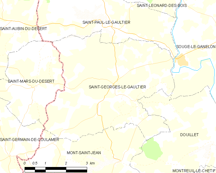 Map of French municipality